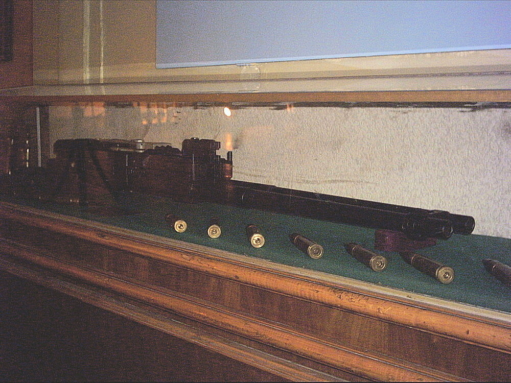 Soviet Aircraft gun GSh-23 displayed in the Egyptian Military museum.